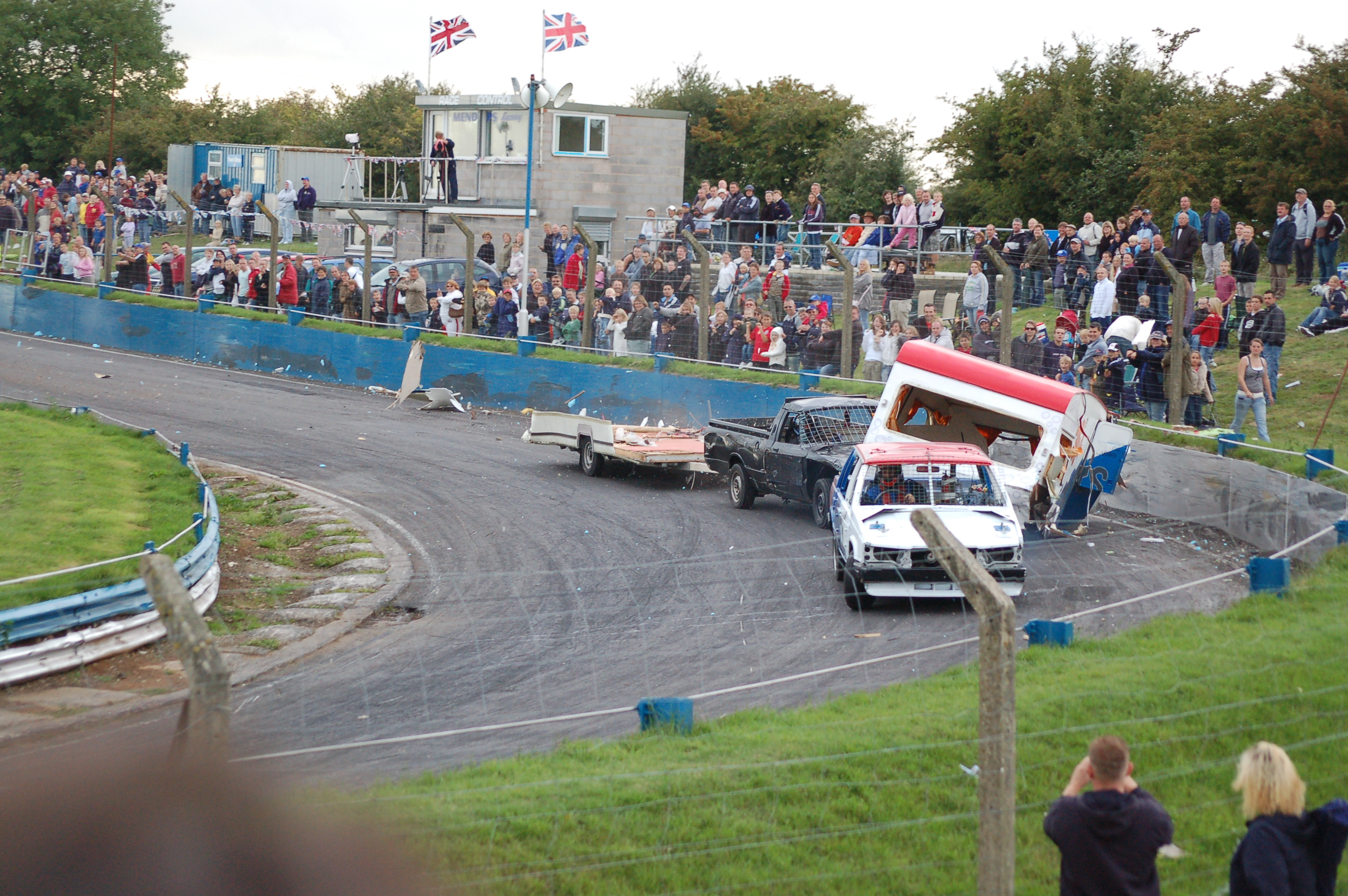 Caravan demolition race at Mendips Raceway near Shipham in Somerset, England